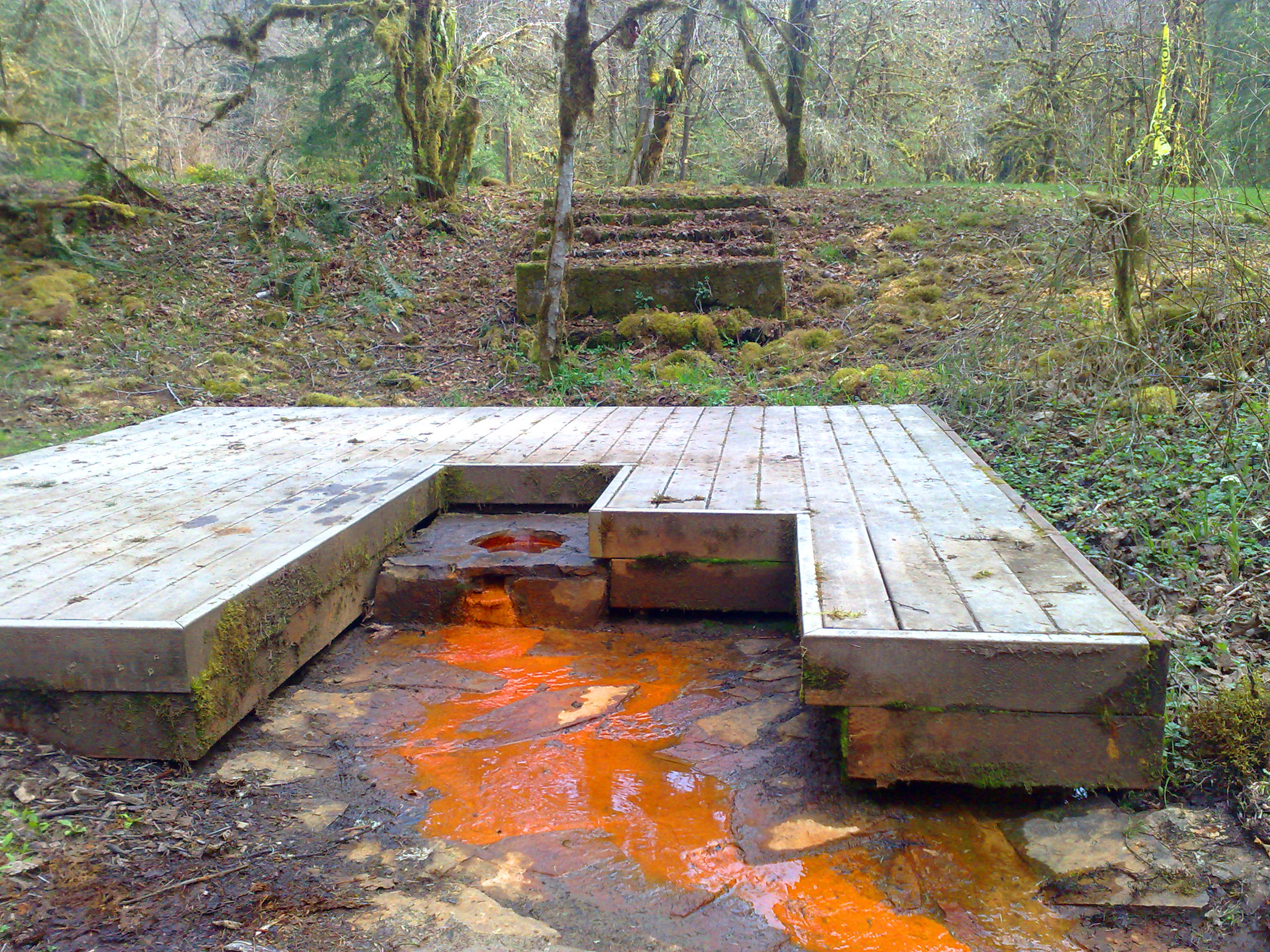 The soda spring at Wilhoit Springs, near Molalla in Clackamas County, Oregon, surfaces in the foundation of what was the bathhouse when Wilhoit Springs Resort was in operation. Today, it's surrounded by a deck built to make it easier for visitors to access the water.